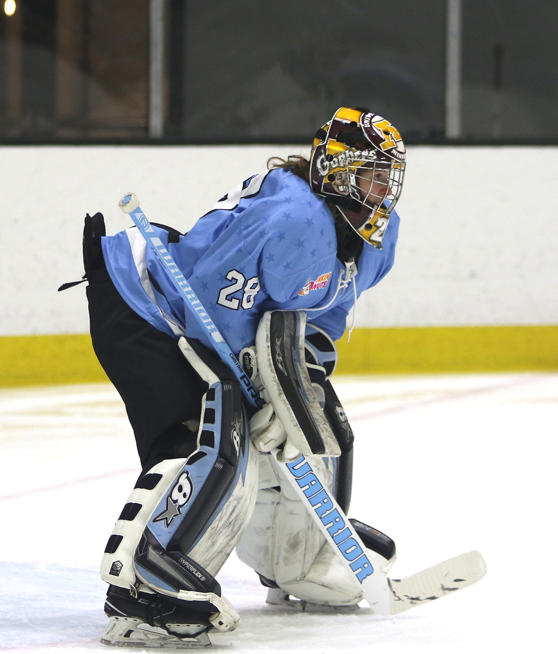 Amanda Leveille playing for the Buffalo Beauts in 2017